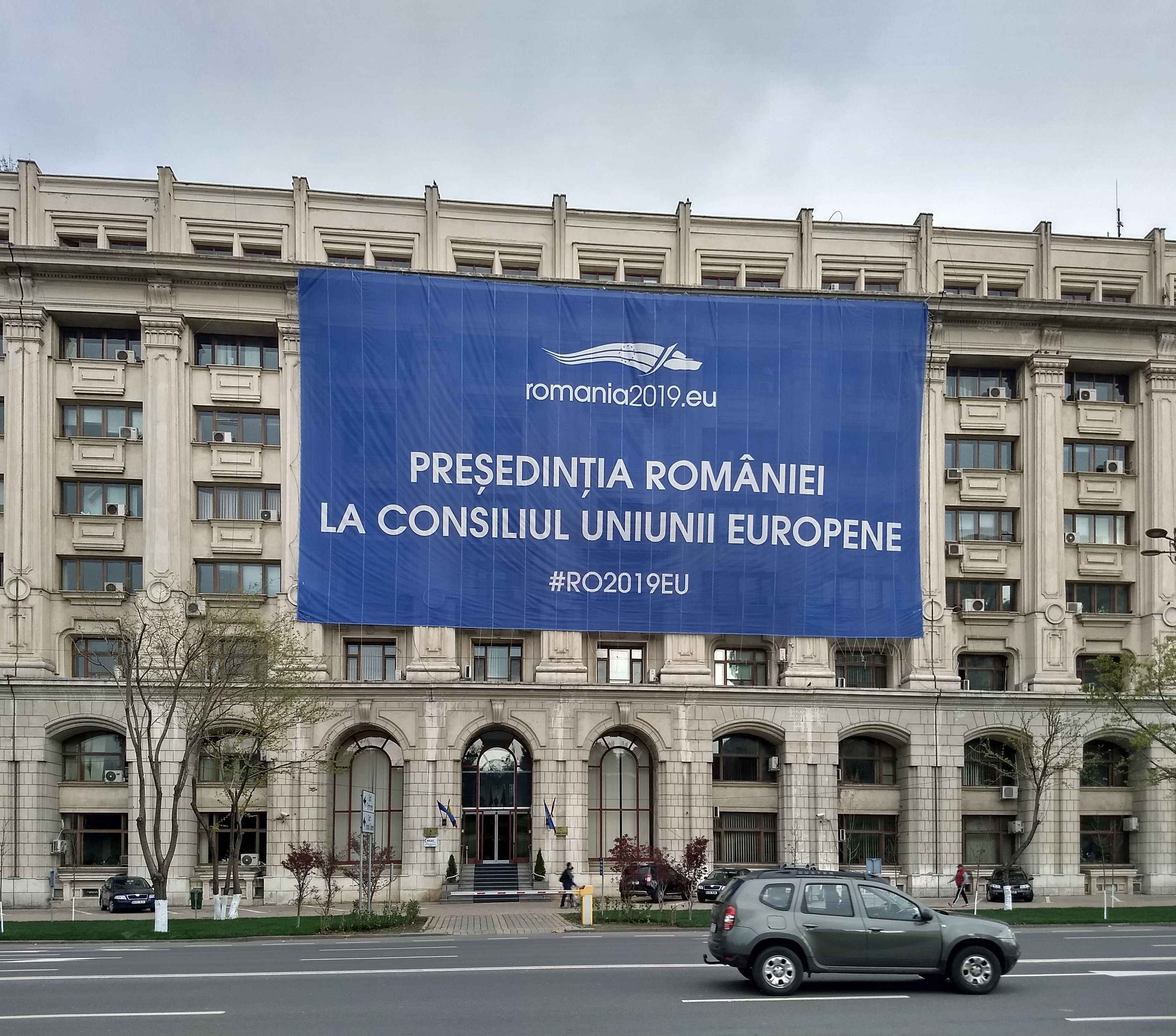 Romania is currently hosting the Presidency of the Council of the European Union, which is, they take great care to point out, distinct from the Presidency of the European Council. There are banners and other commemorative displays throughout Bucharest.